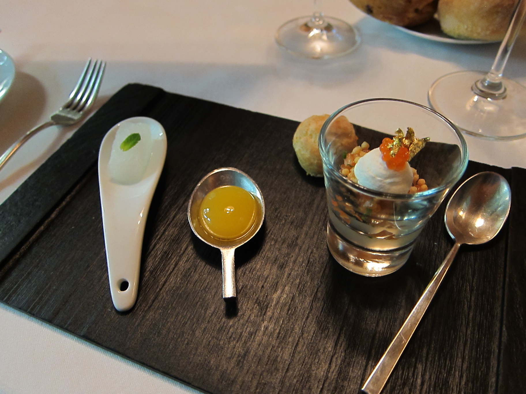 From left to right: Mojito, screwdriver, trout poke over lemon gellee with trout roe and craime fraiche. At Providence in Los Angeles.